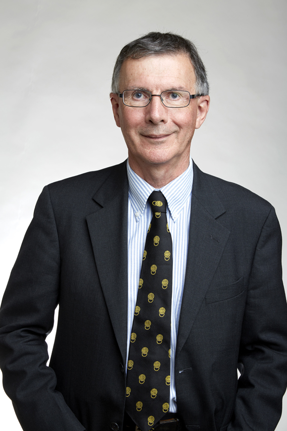 Richard A. Dixon is distinguished research professor at the University of North Texas, a faculty fellow of the Hagler Institute of Advanced Study and Timothy C. Hall-Heep distinguished faculty chair at Texas A&M University Attribution: The Royal Society